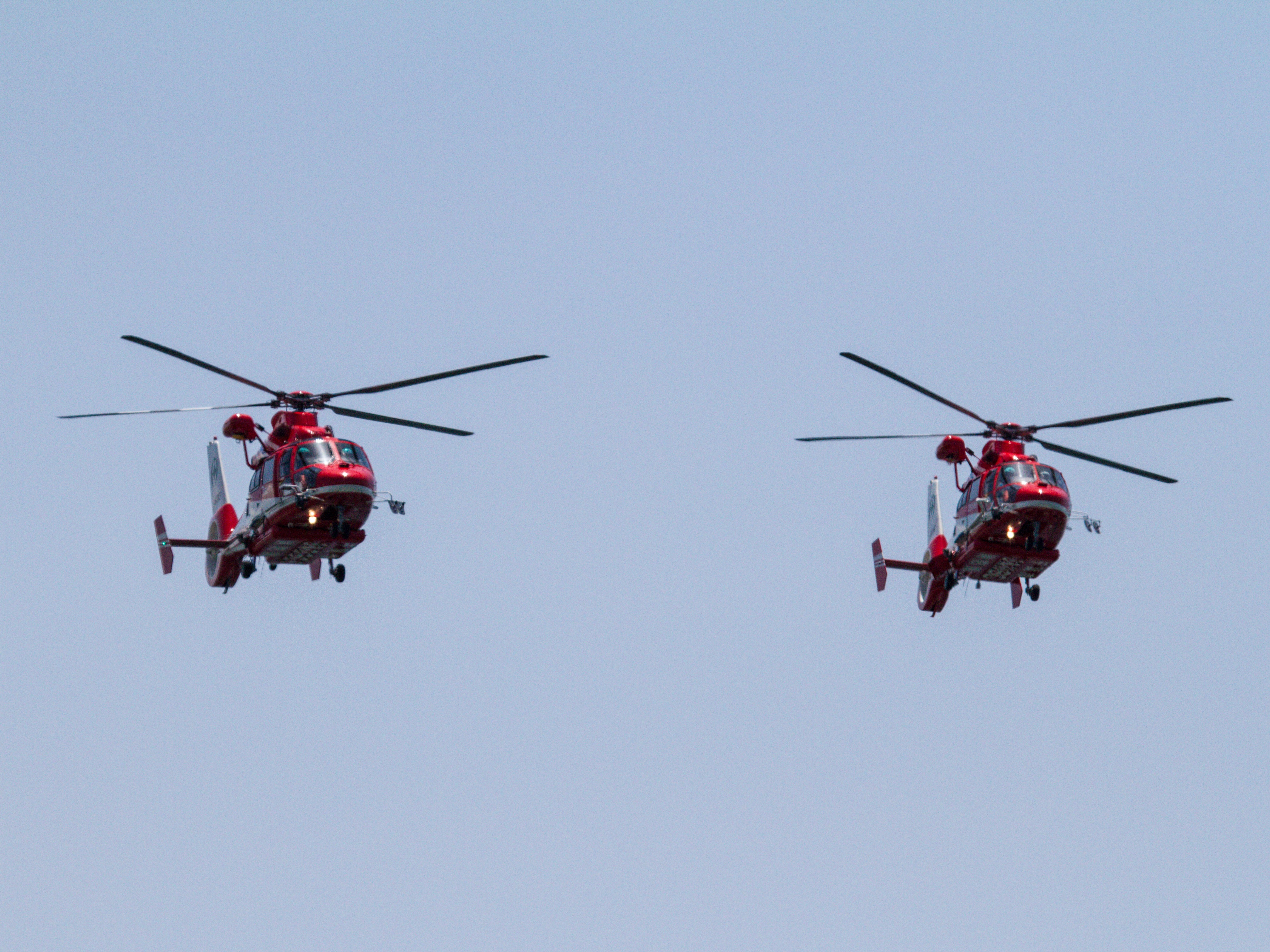 2017 Red Bull Air Race of Chiba Chiba Fire Rescue Demonstration